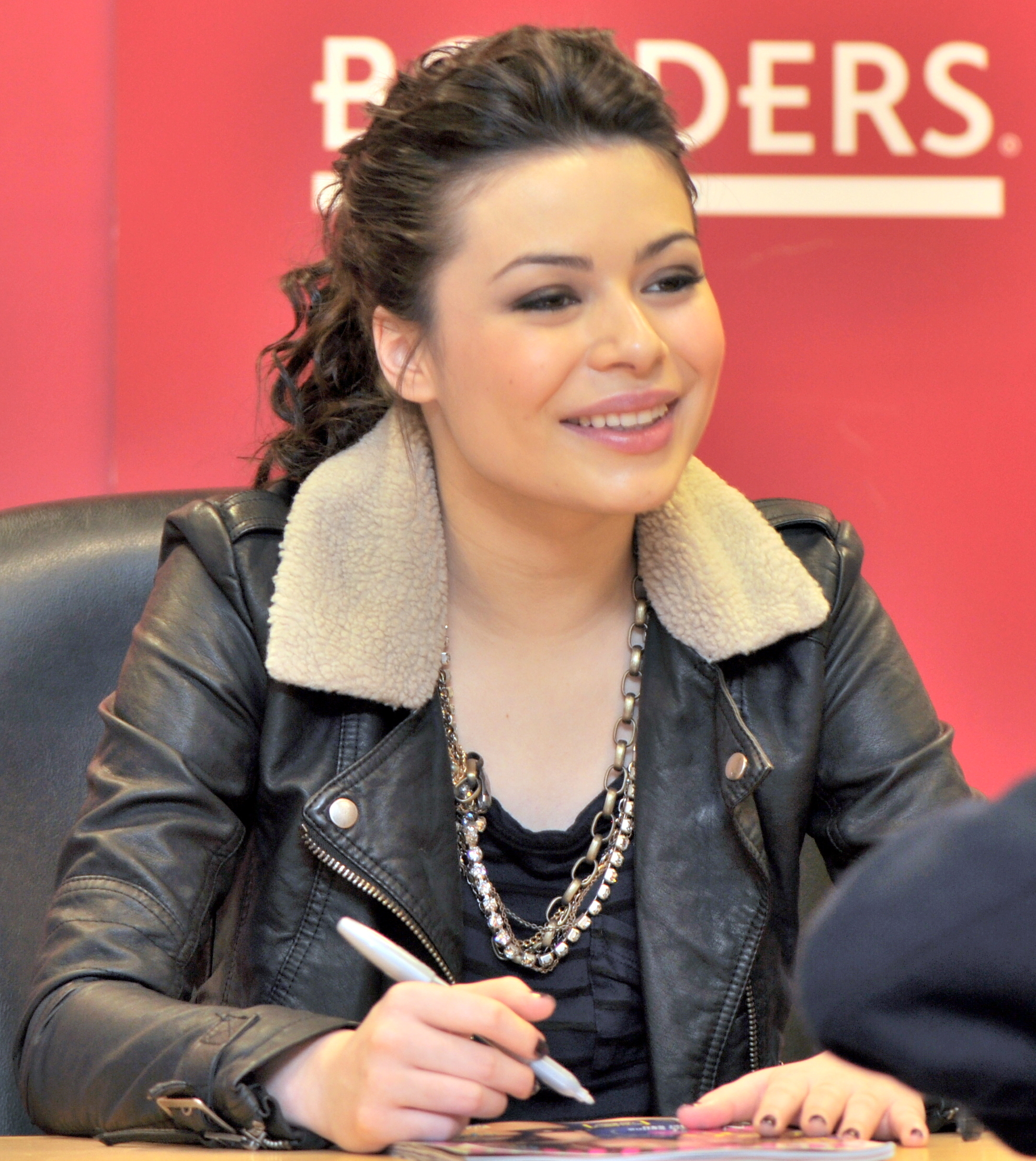 Miranda Cosgrove at Columbus Circle Borders magazine signing featuring her on the cover of Seventeen.